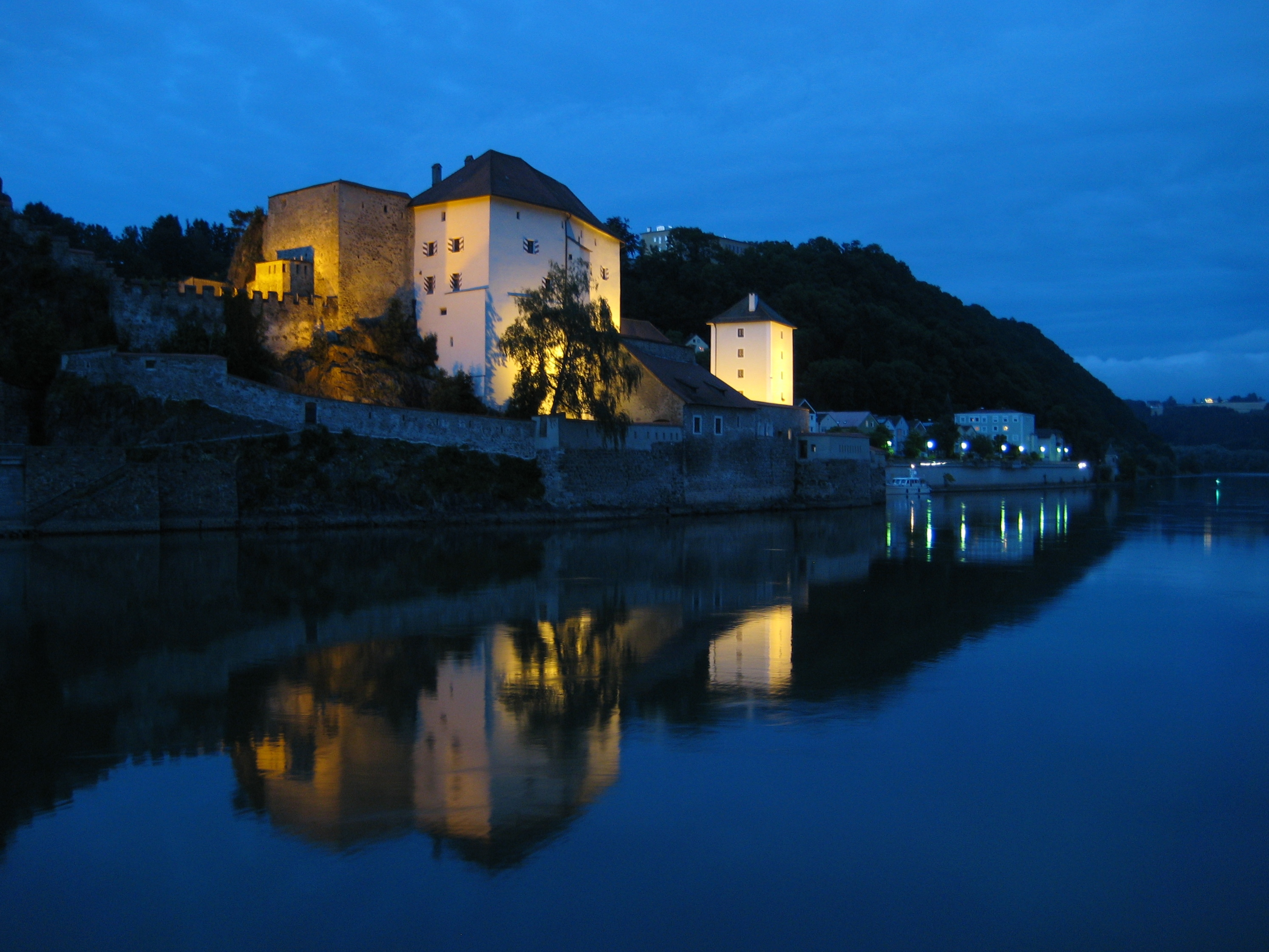 Veste Niederhaus in Passau by night, in front the Danube